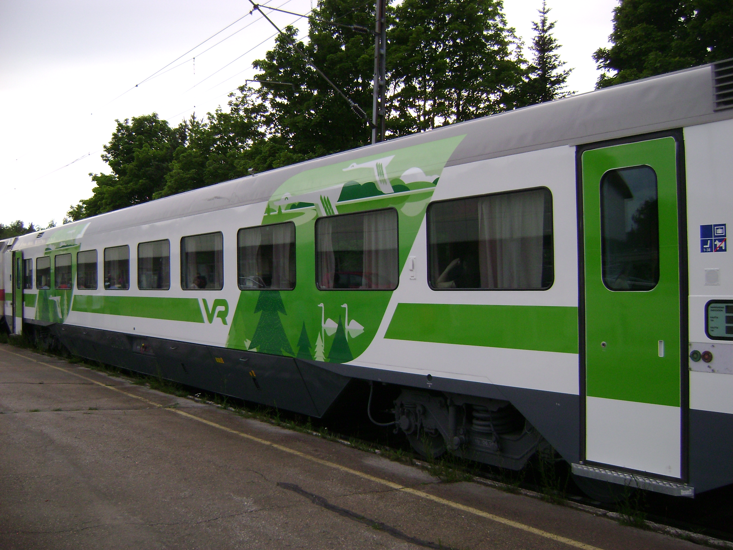 VR Class Ex intercity coach with new green livery.